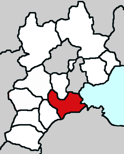 Cangzhou city of Hebei Province,China. Made by myself